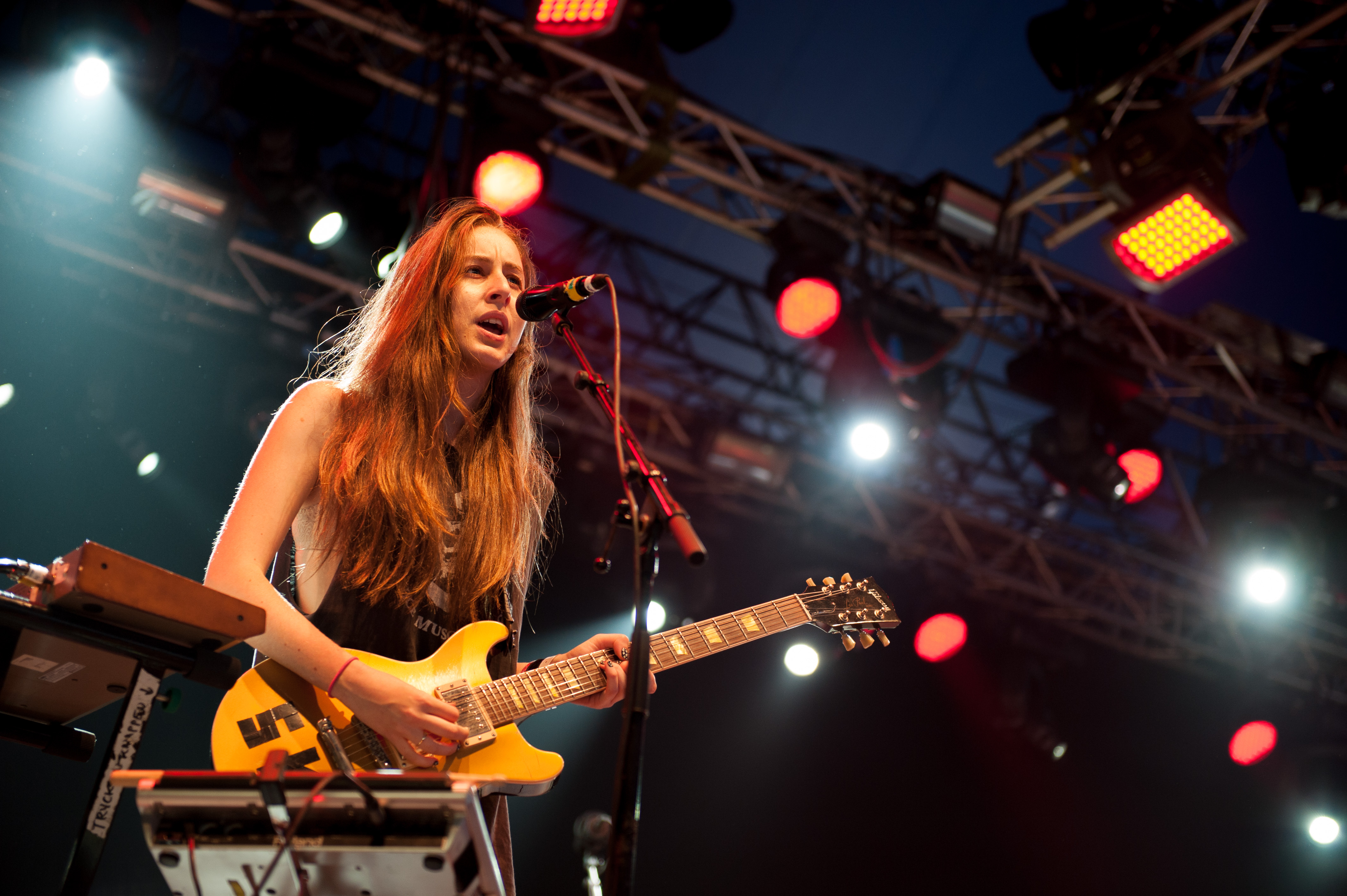 Alana Haim at Way Out West 2013 in Gothenburg, Sweden